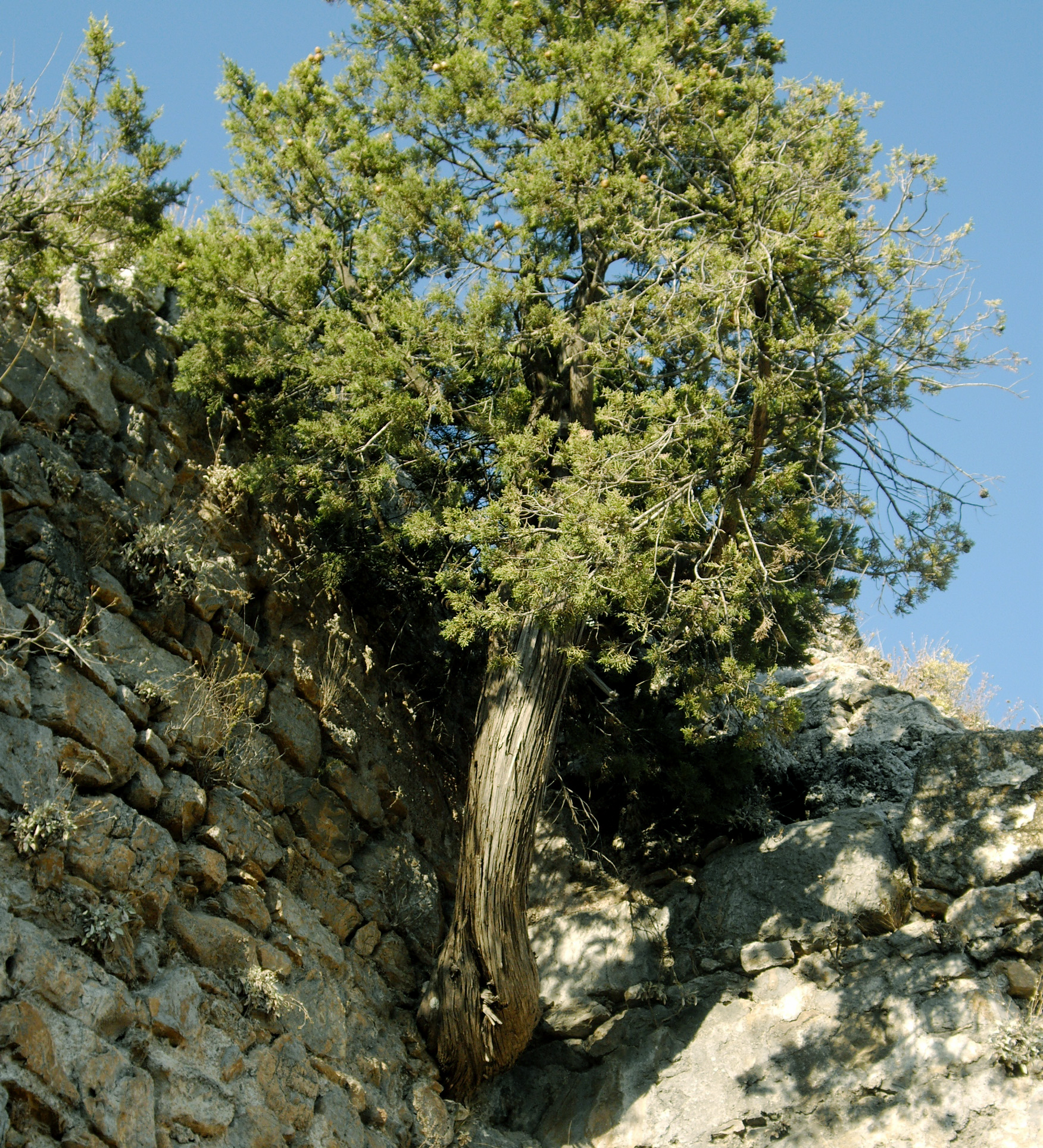 Cupressus sempervirens growing out of an old wall, Kaunos, Dalyan, Turkey.